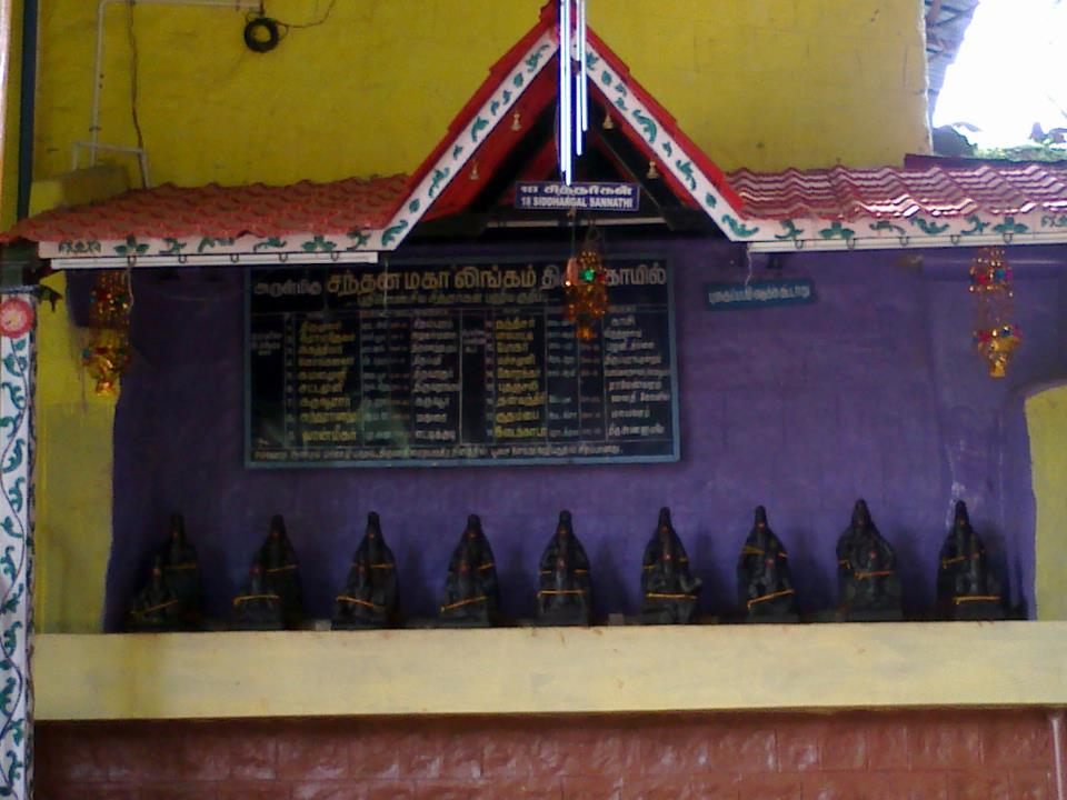 18 Siddhas statues at SanthanaMahaLingam Temple